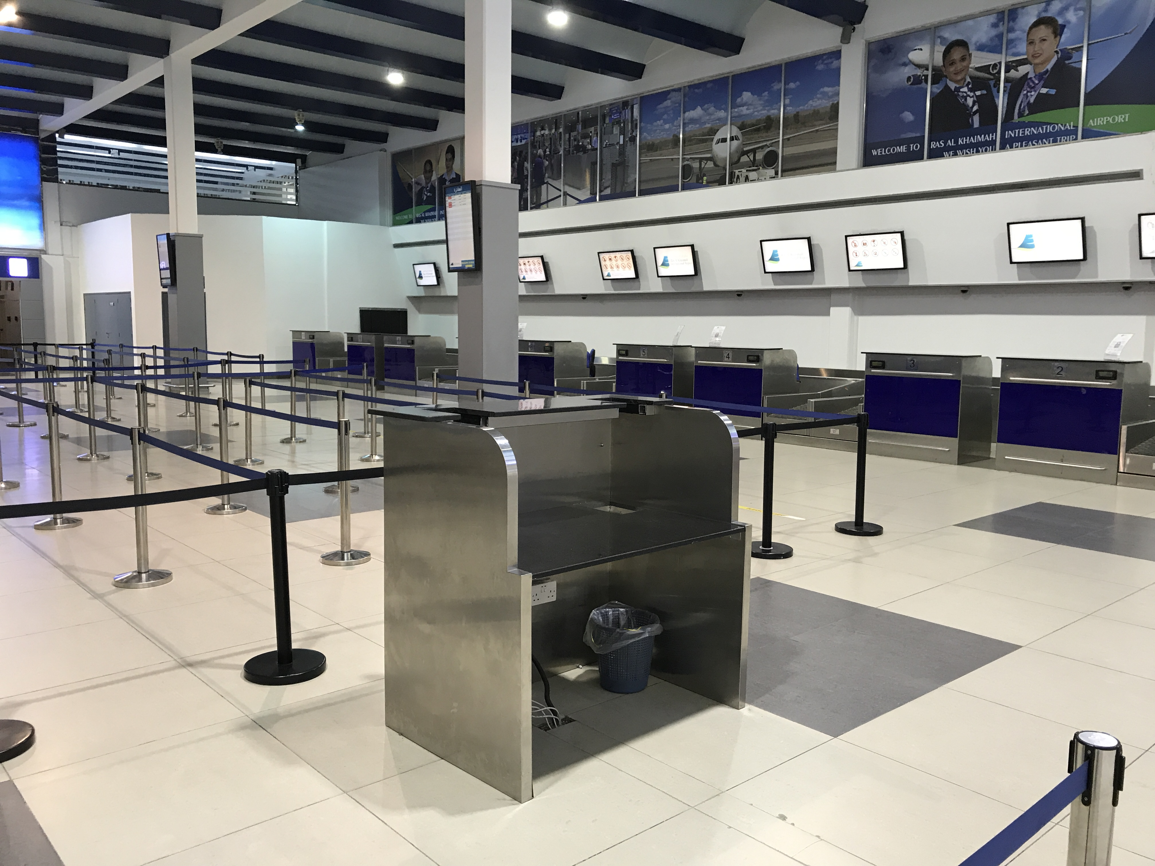 A look inside the terminal in Ras Al Khaimah Airport (check in area)